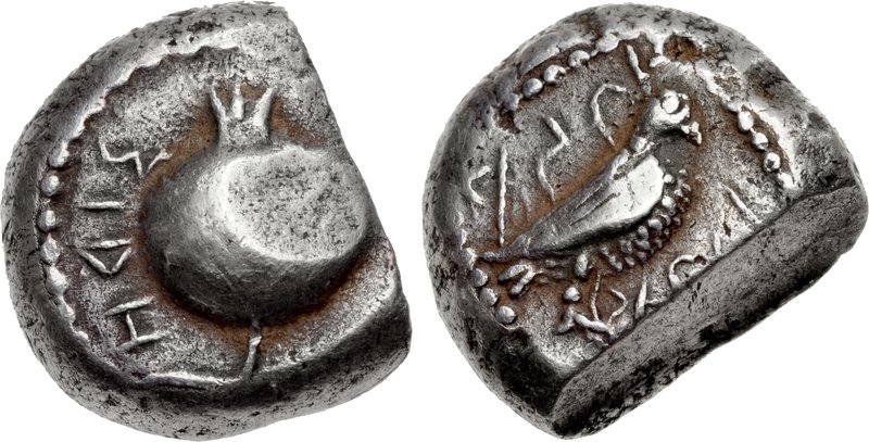 PAMPHYLIA, Side. Circa 490-450 BC. Cut AR Stater (15mm, 8.82 g, 6h). Pomegranate; ΣIΔH (retrograde) to left / Raven standing right; NRBISBÆK (in Sidetic) around. A. Destrooper-Georgiades, “An Unusual Coin from Side” in NK 14 (1995), fig. 1 = D. Tsangari, Hellenic Coinage: The Alpha Bank Collection (Athens, 2007)